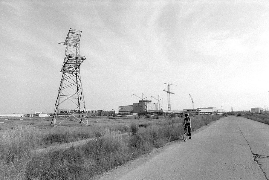 Abandoned and unfinished crimean nuclear power plant construction site